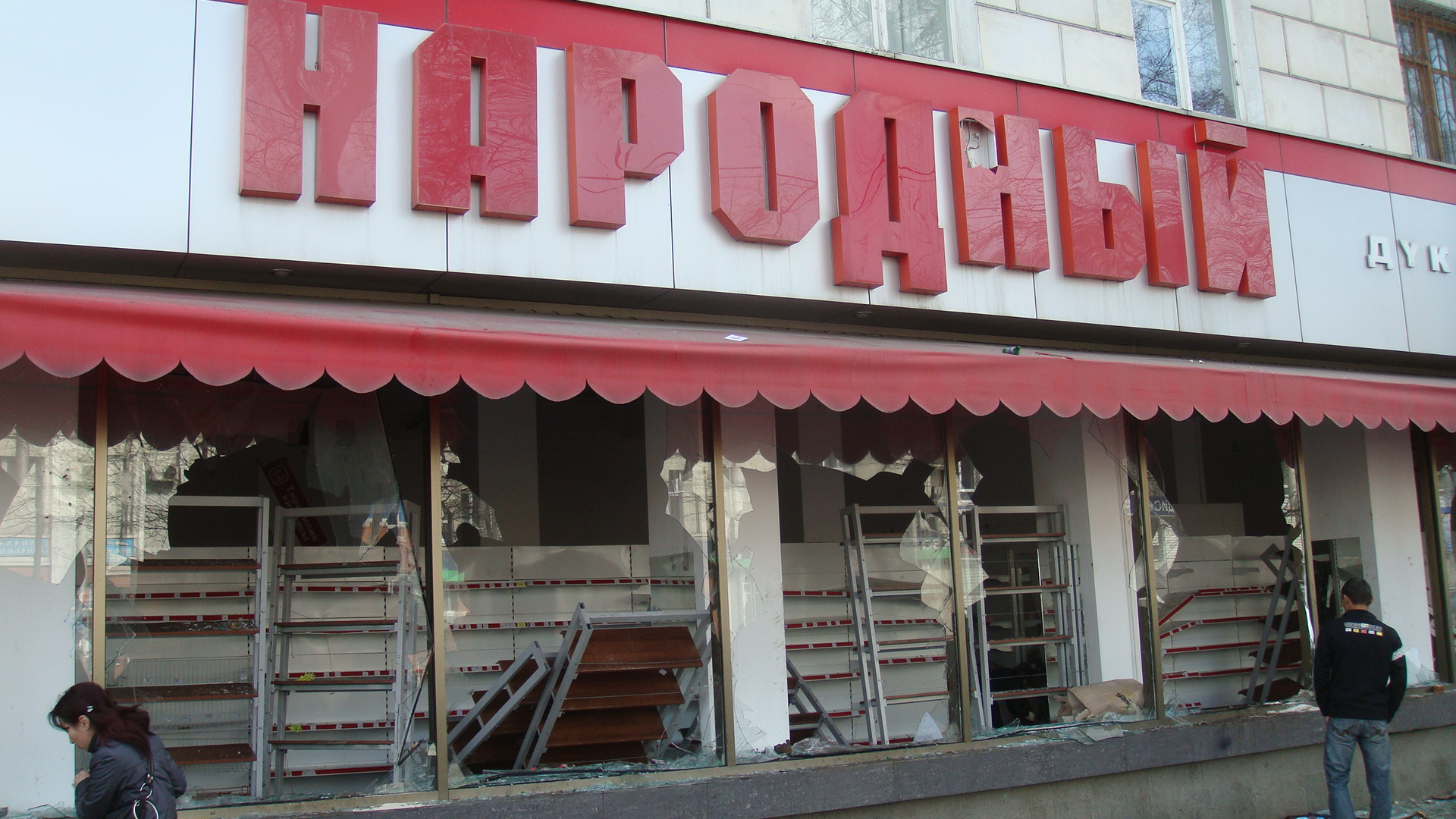 One the many looted "Narodnij" (Народный) supermarkets in Bishkek following citywide protests and rioting on April 7th, 2010. This branch is located at the intersection Chuj and Manas Streets.